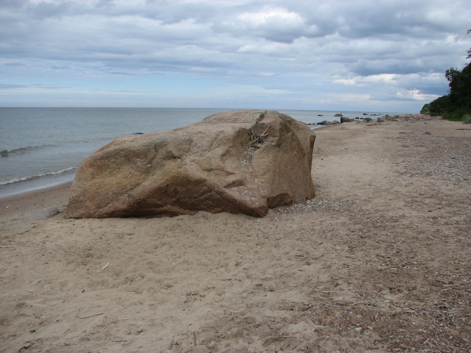 Aa beach in Estonia.